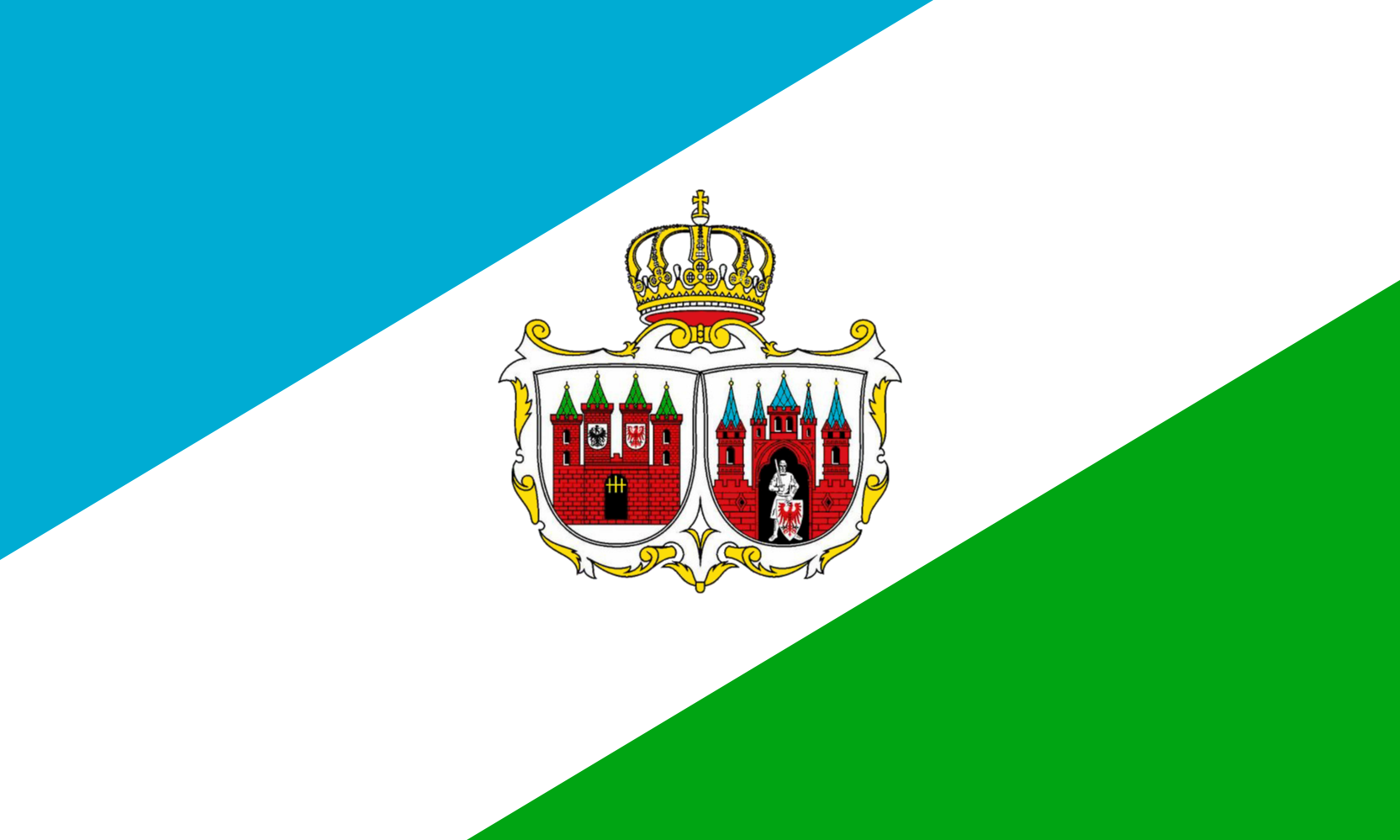 flag of the city of Brandenburg